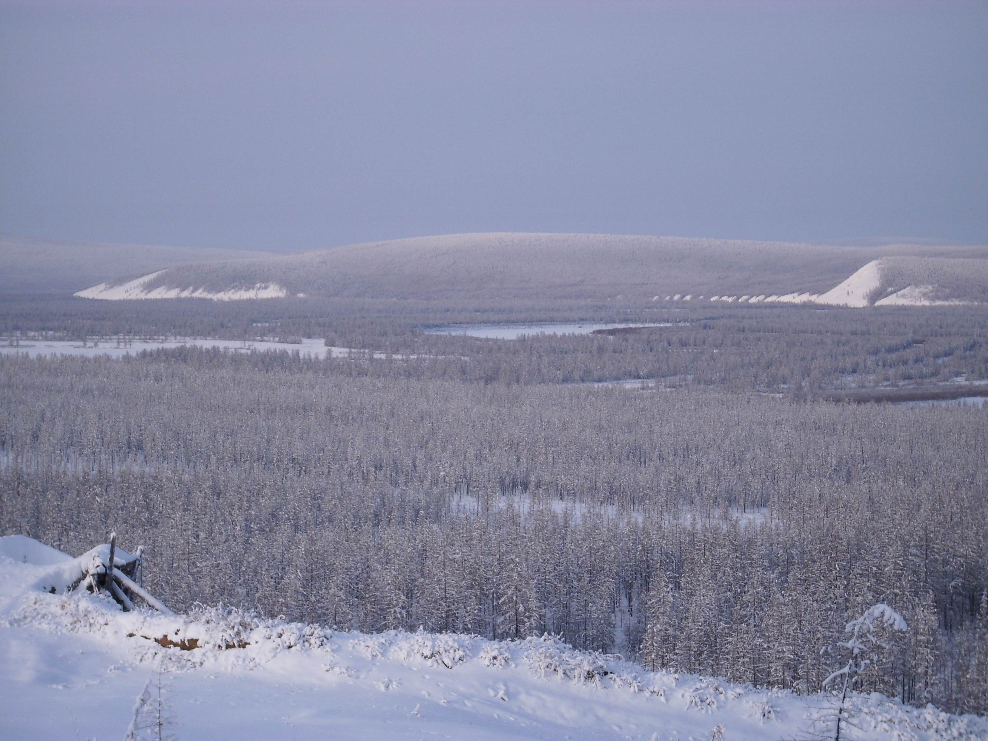 The valley basin of Verkhoyansk, with Larix gmelinii forest